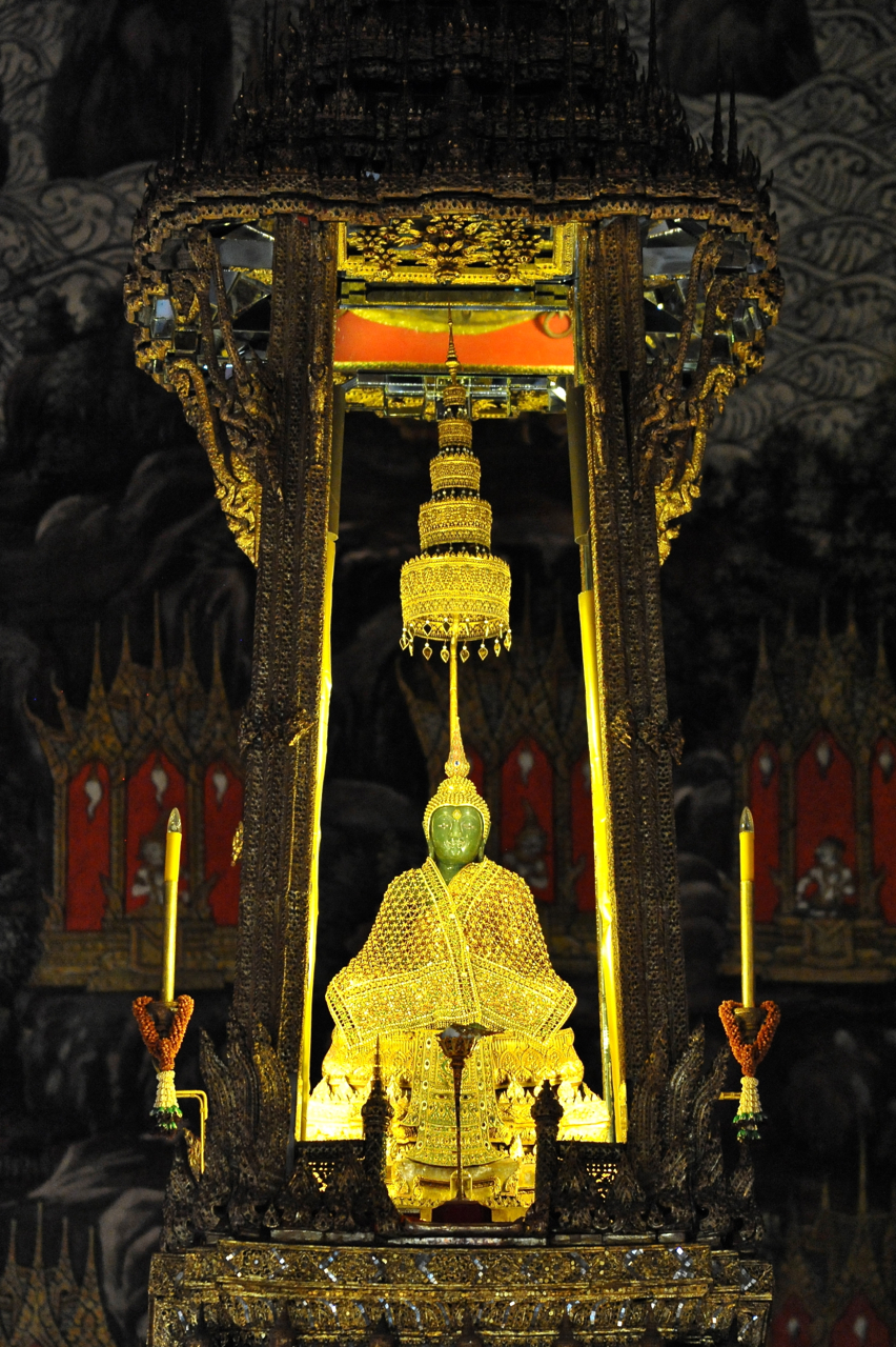 Photo of the Emerald Buddha taken at the temple of the Emerald Buddha, Grand Palace, Bangkok, Thailand